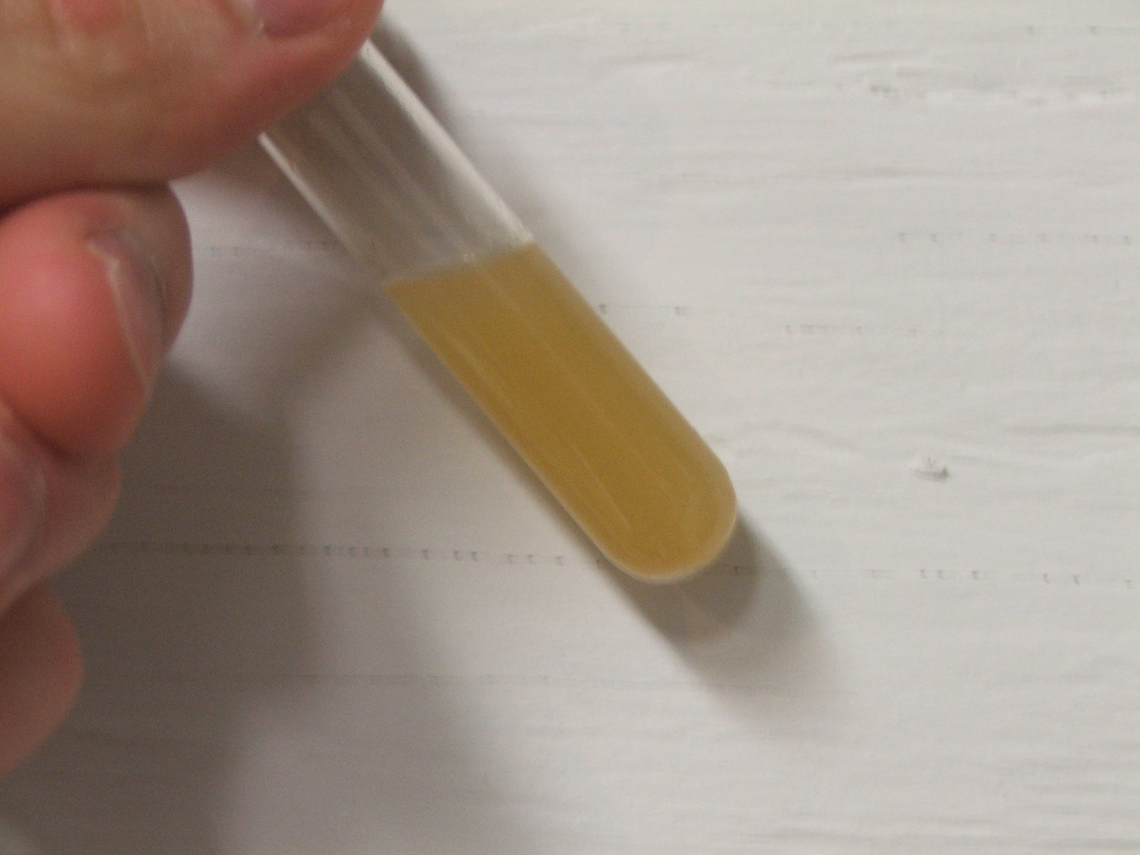 Manganese(II) oxide precipitate mixed with water